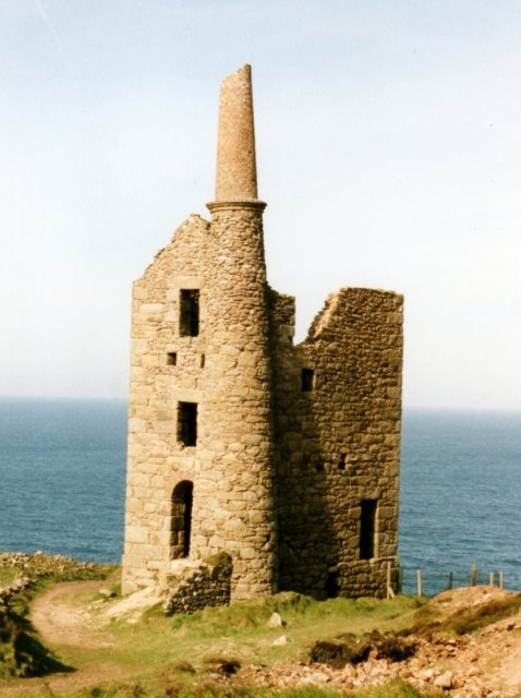 Wheal Owles. In the 1860s the mine had 11 engines and 29 miles of levels. In 1893 miners broke through into flooded workings of an adjacent mine Wheal Drea and 20 miners drowned.